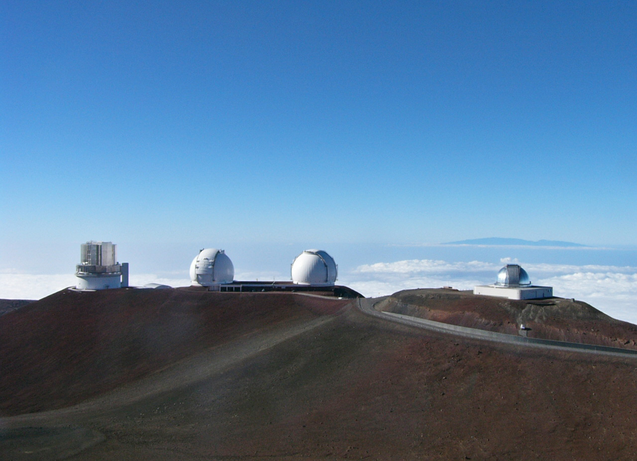 View of part of the Mauna Kea Observatory, Hawai'i. Visible is the Subaru Telescope, the two telescopes of the W. M. Keck Observatory, and the NASA Infrared Telescope Facility (IRTF).